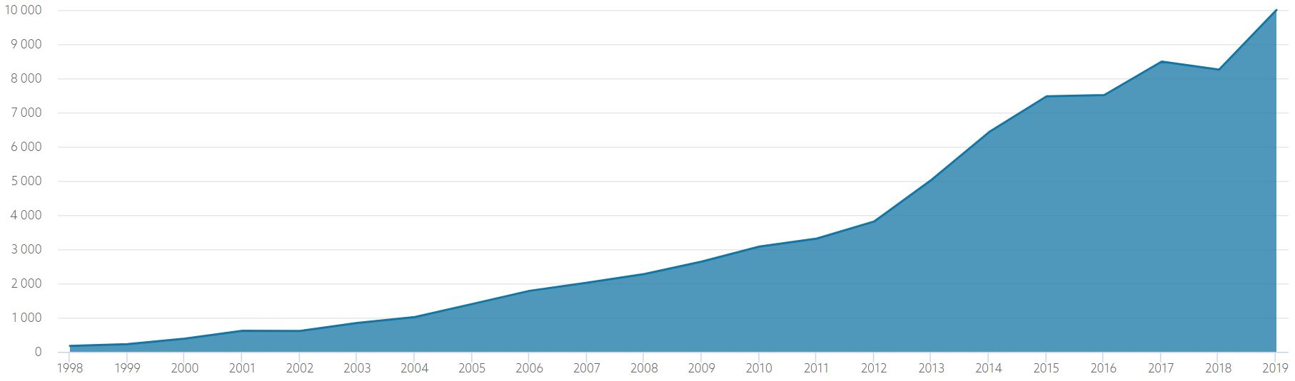 The development of the Norwegian "Oil Fund" 1998 - 2019